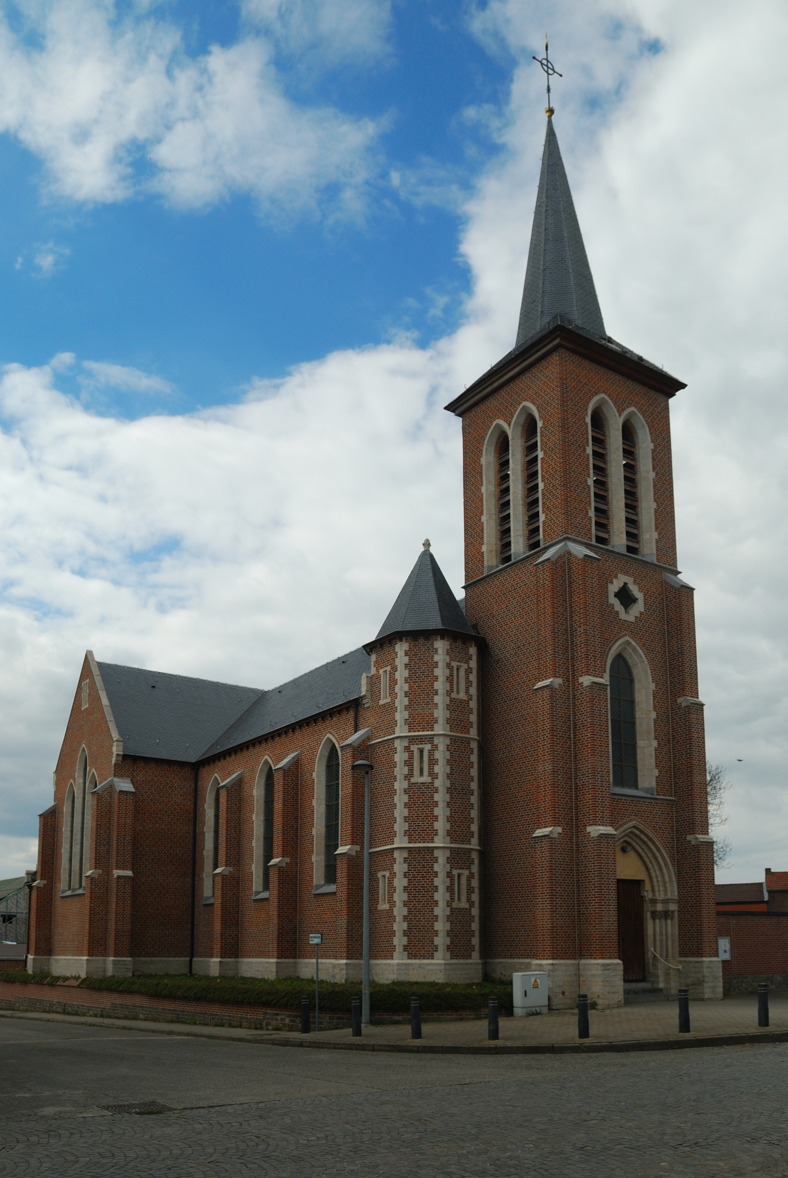 South and east faces of the church of Saint Odulf at Bost, commune of Tienen, Belgium. Nikon D60 f=18mm f/8 at 1/250s ISO 200. Colour corrected using Nikon ViewNX 2.1.2; perspective correction and framing in GIMP 2.6.11.